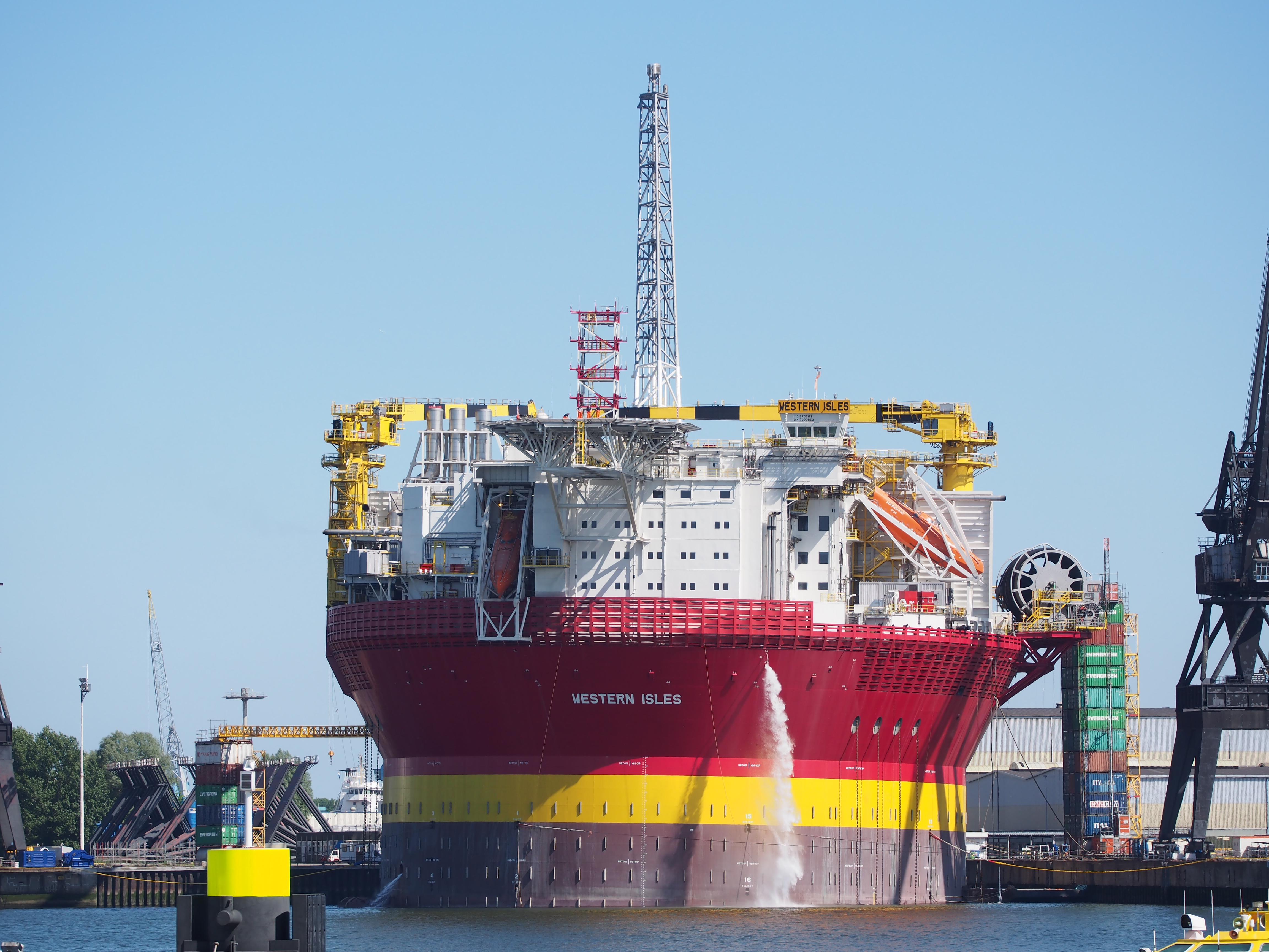 Western Isles (ship, 2017) IMO 9736171 FPSO (Floating, Production, Storage, Offloading), Welplaathaven, Port of Rotterdam